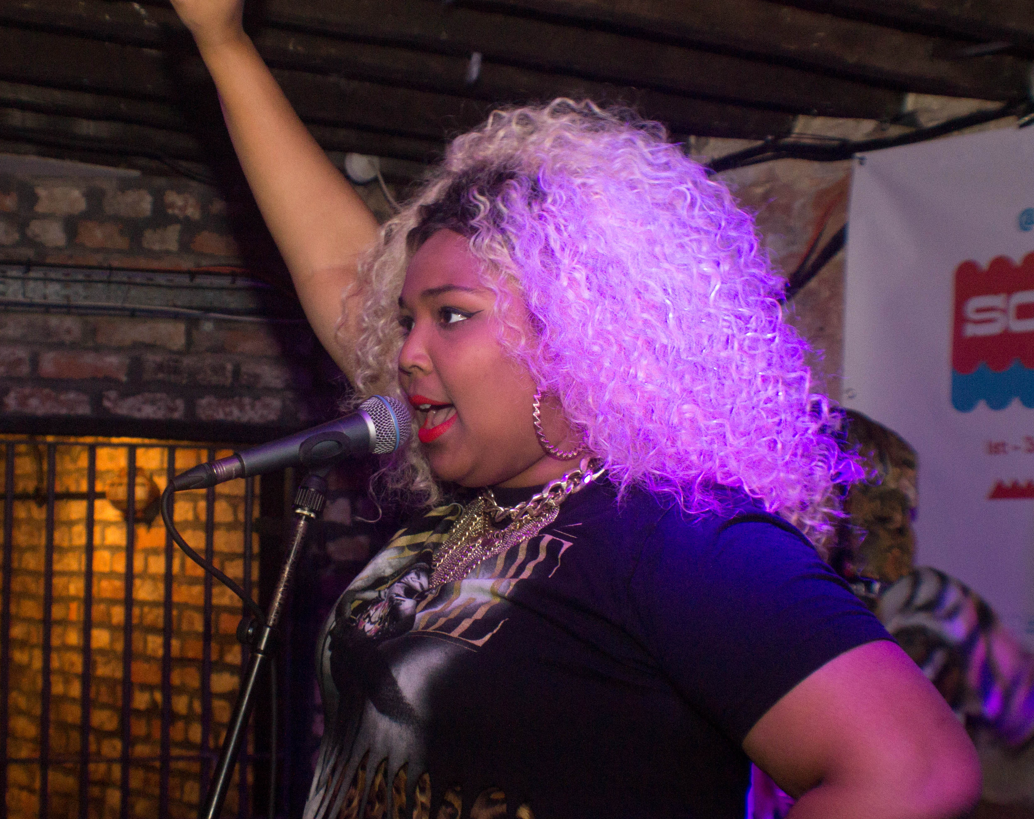 Lizzo at Liverpool Soundcity 2014.